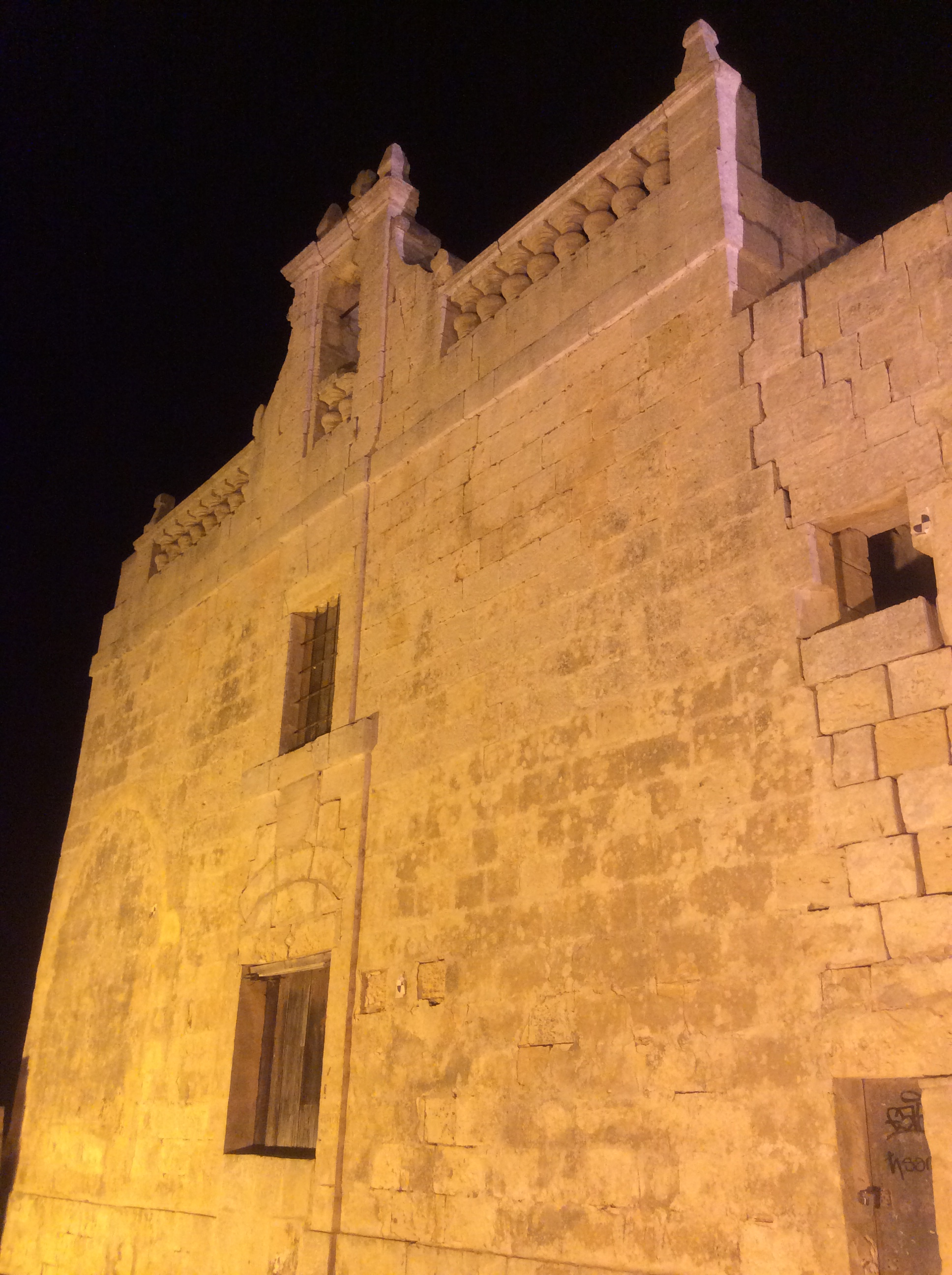 Laferla Cross This media is about Maltese cultural property with inventory number 02166.